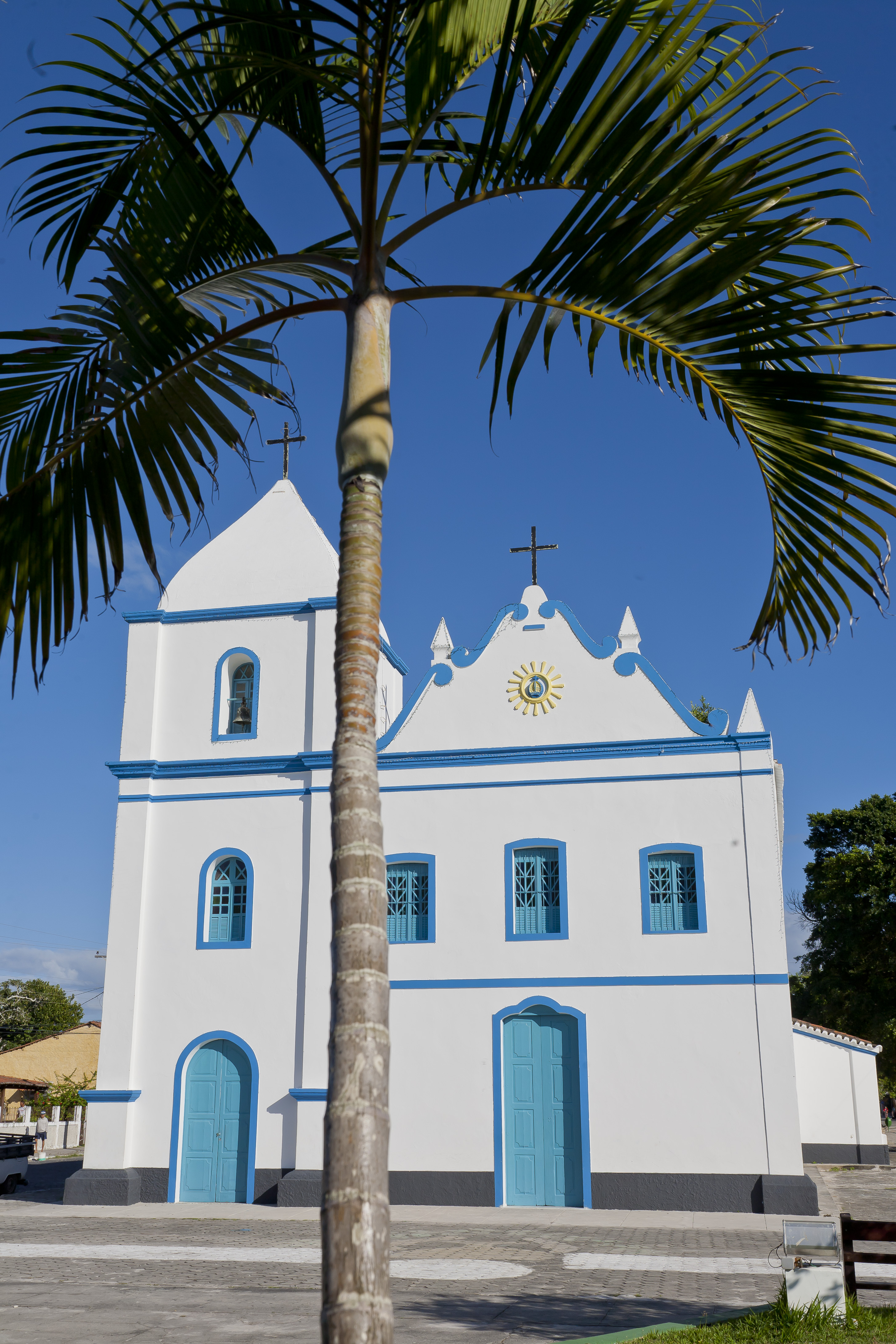 Prado is a municiplaity in the state of Bahia, Brazil - Located at Lat 17°20'28"south and Long 39°13'15" west, 4 meters above sea level - population in 2004 28.480 - total area 1.670 square kilometers